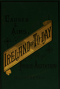 Ireland of To-day: The Causes and Aims of Irish Agitation, By Margaret Frances Sullivan